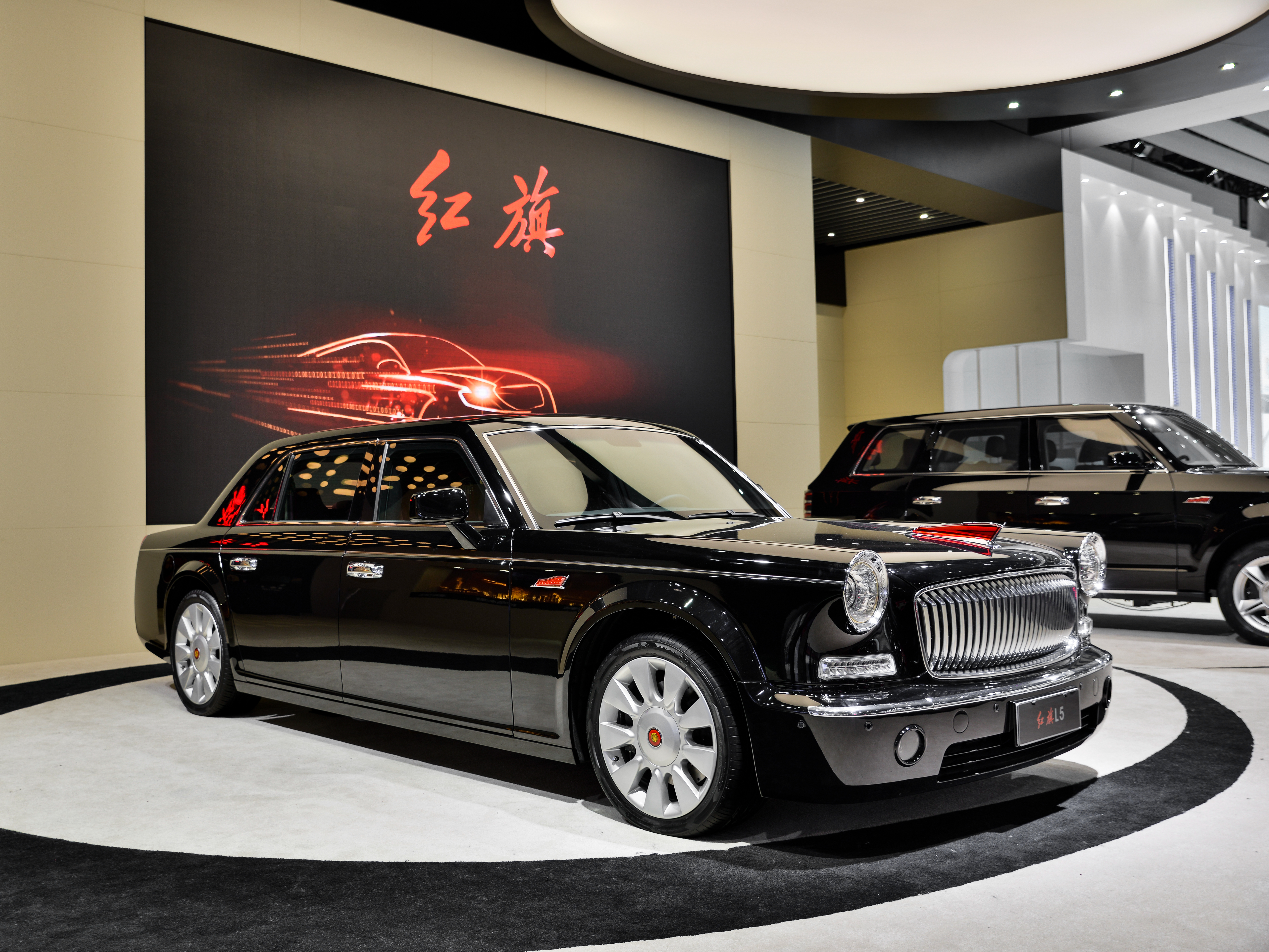 Red Flag L5 Limousine Auto Shanghai 2015